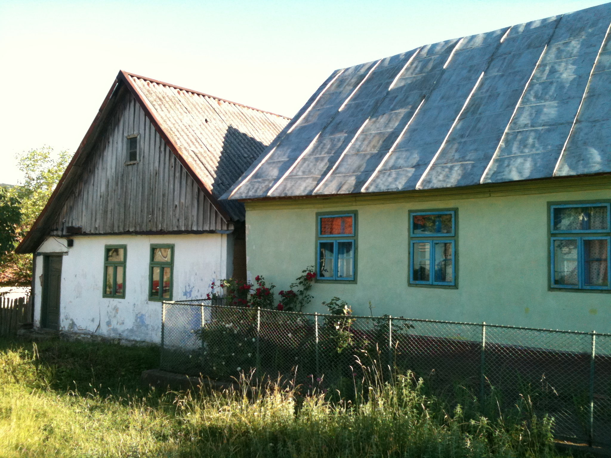 Bigar village houses